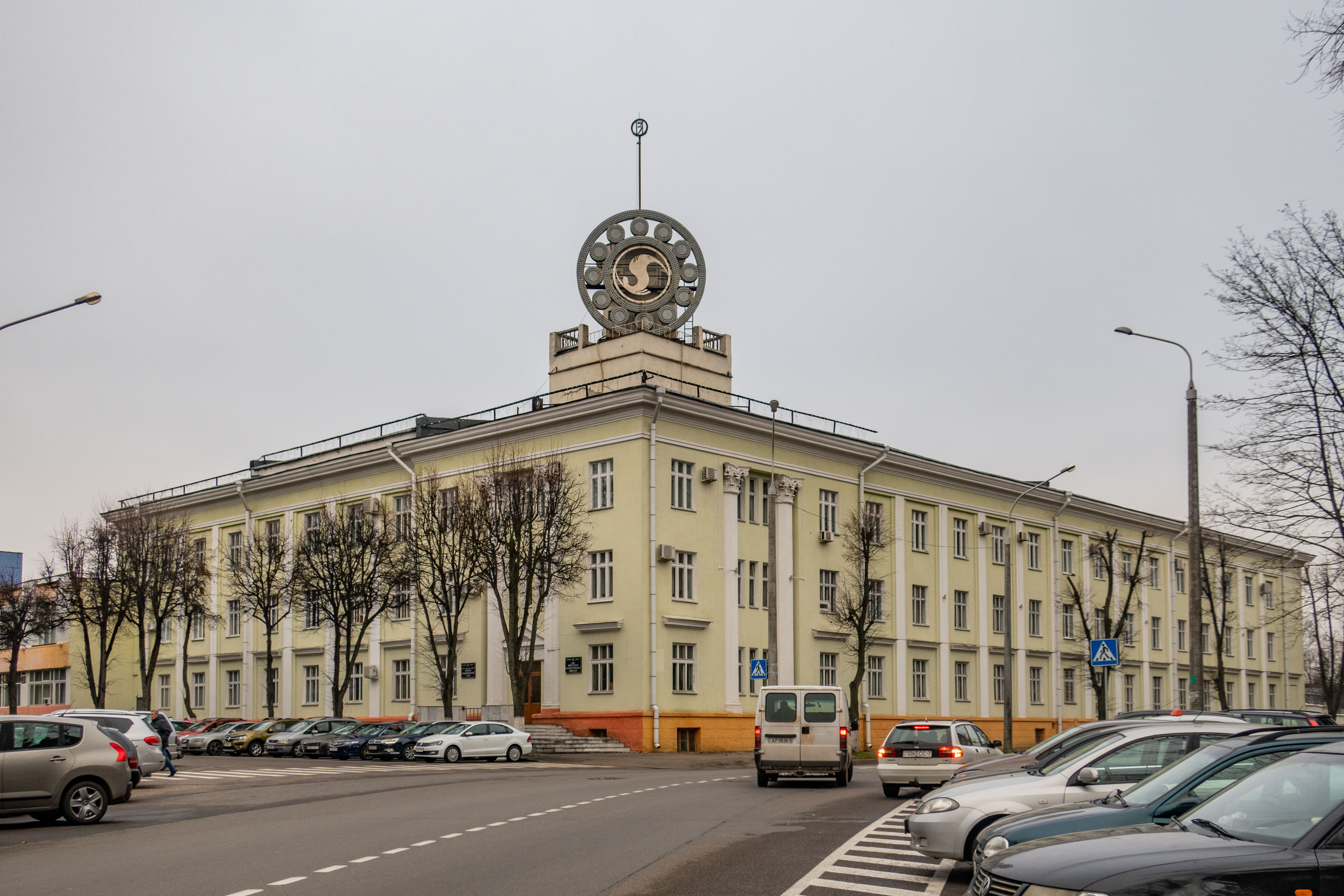 Minsk bearing factory (GPZ-11), Belarus